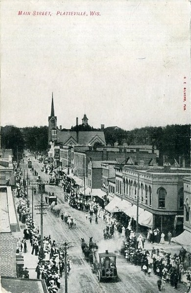 Postcard depicting Main Street in Platteville, Wisconsin, with a 1910 postmark. Aerial view (from a high building or tower?); eBay store Web page states: "1910 postmark. / Size: 3-1/2 x 5-1/2""